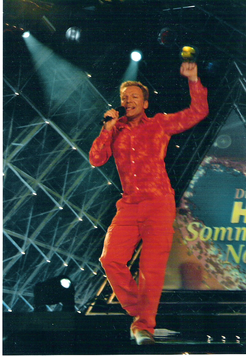 Andreas Zaron